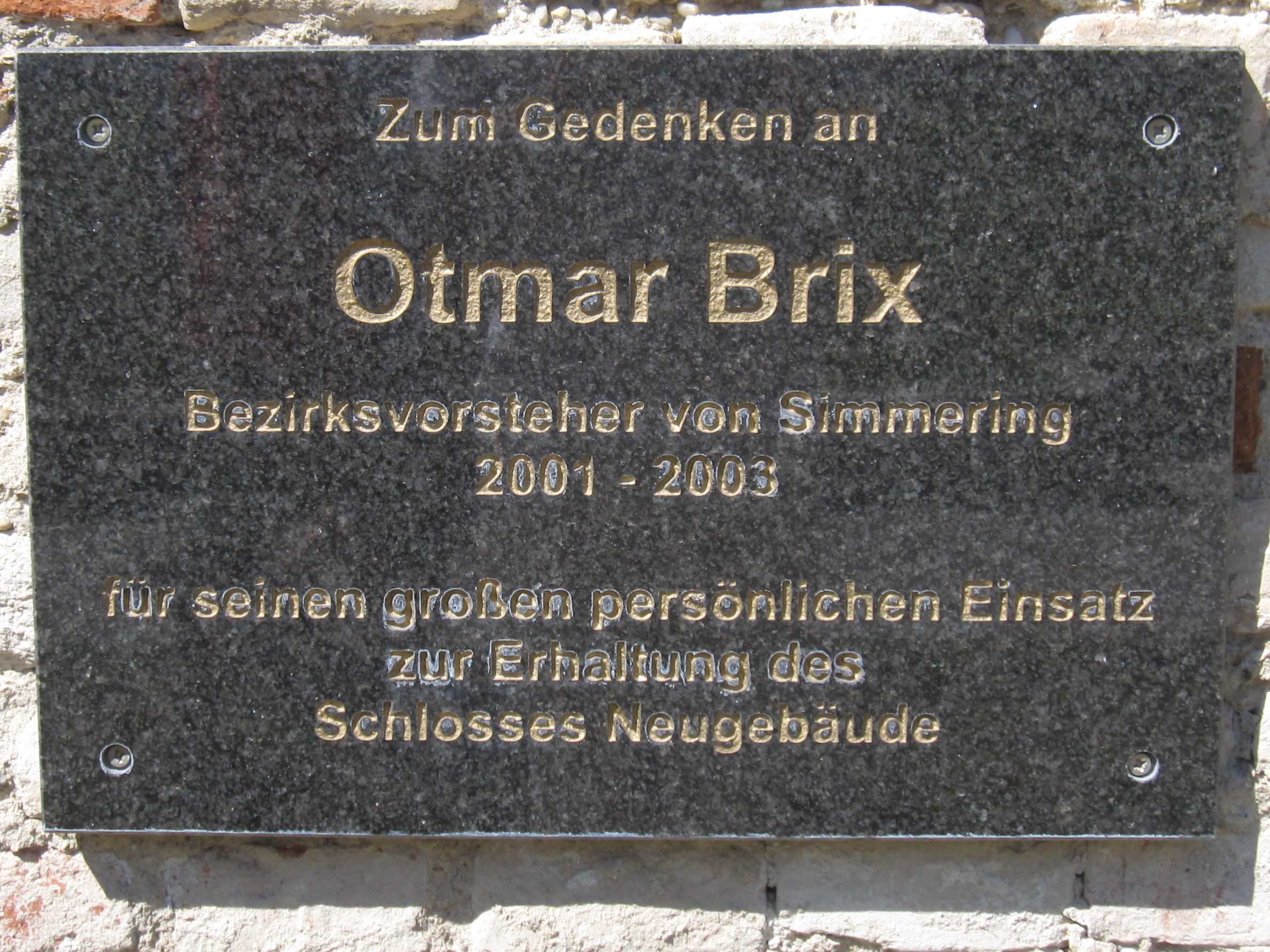 Memorial plaque to Otmar Brix (1944-2003), who was deeply involved in the fight for the preservation of Neugebäude Palace.